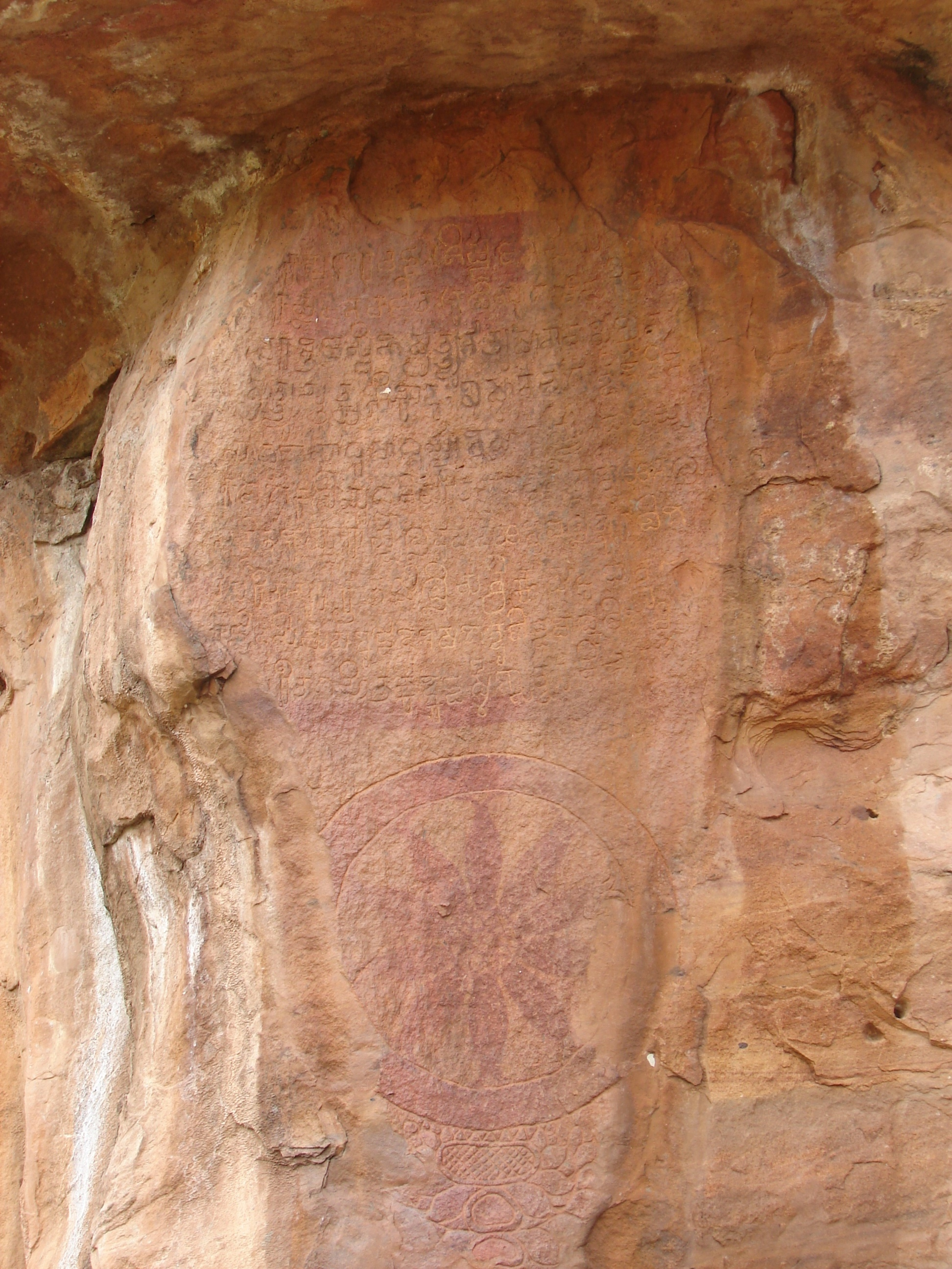 The Kappe Arabhatta inscription of 7th century, considered the earliest available evidence of poetic Kannada writing in Tripadi metre at Badami, Karnataka state, India